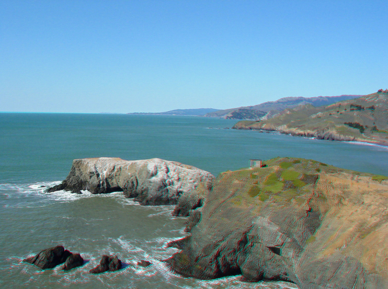 This is an anaglyph of Bird Island in California.